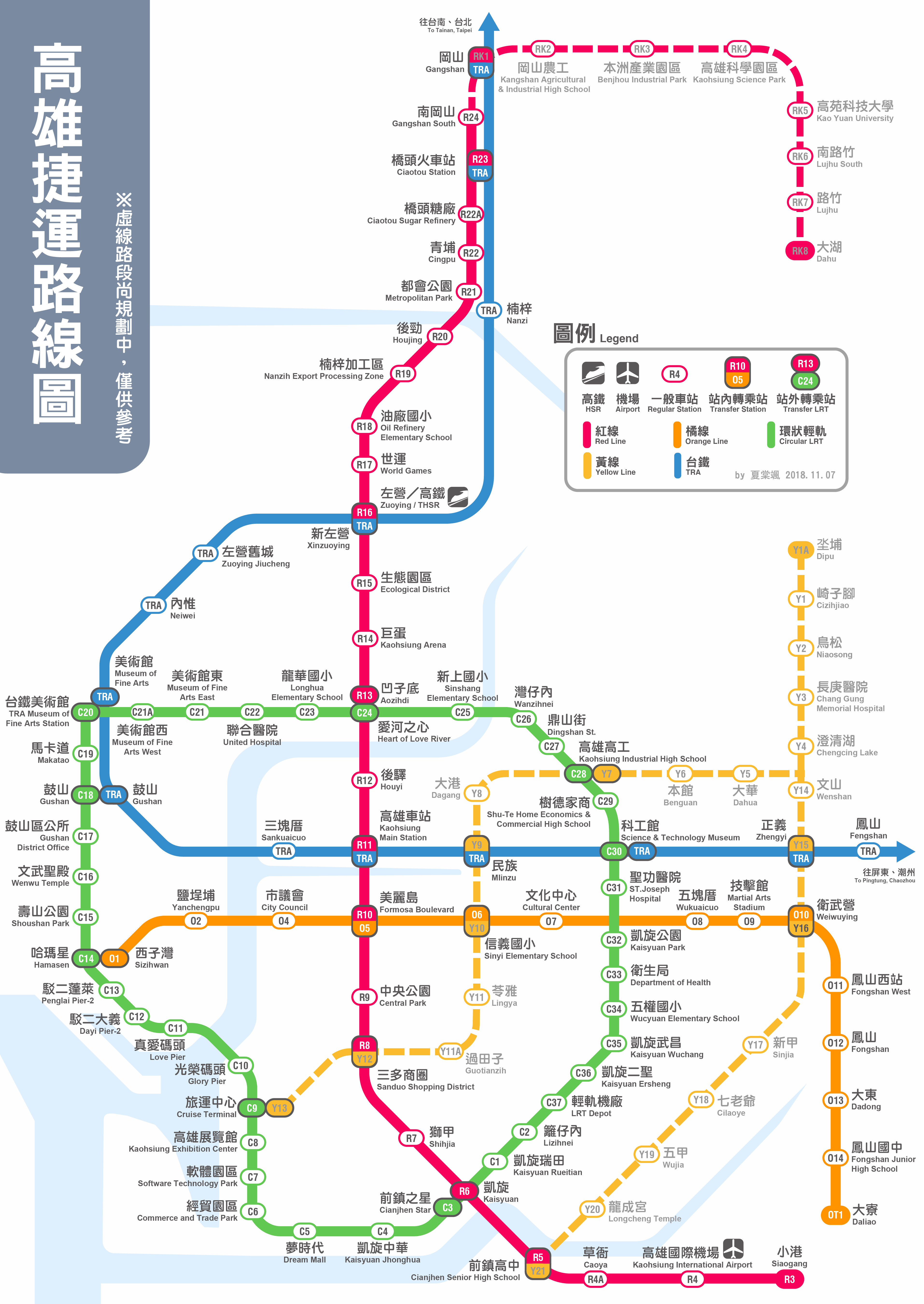 KMRT